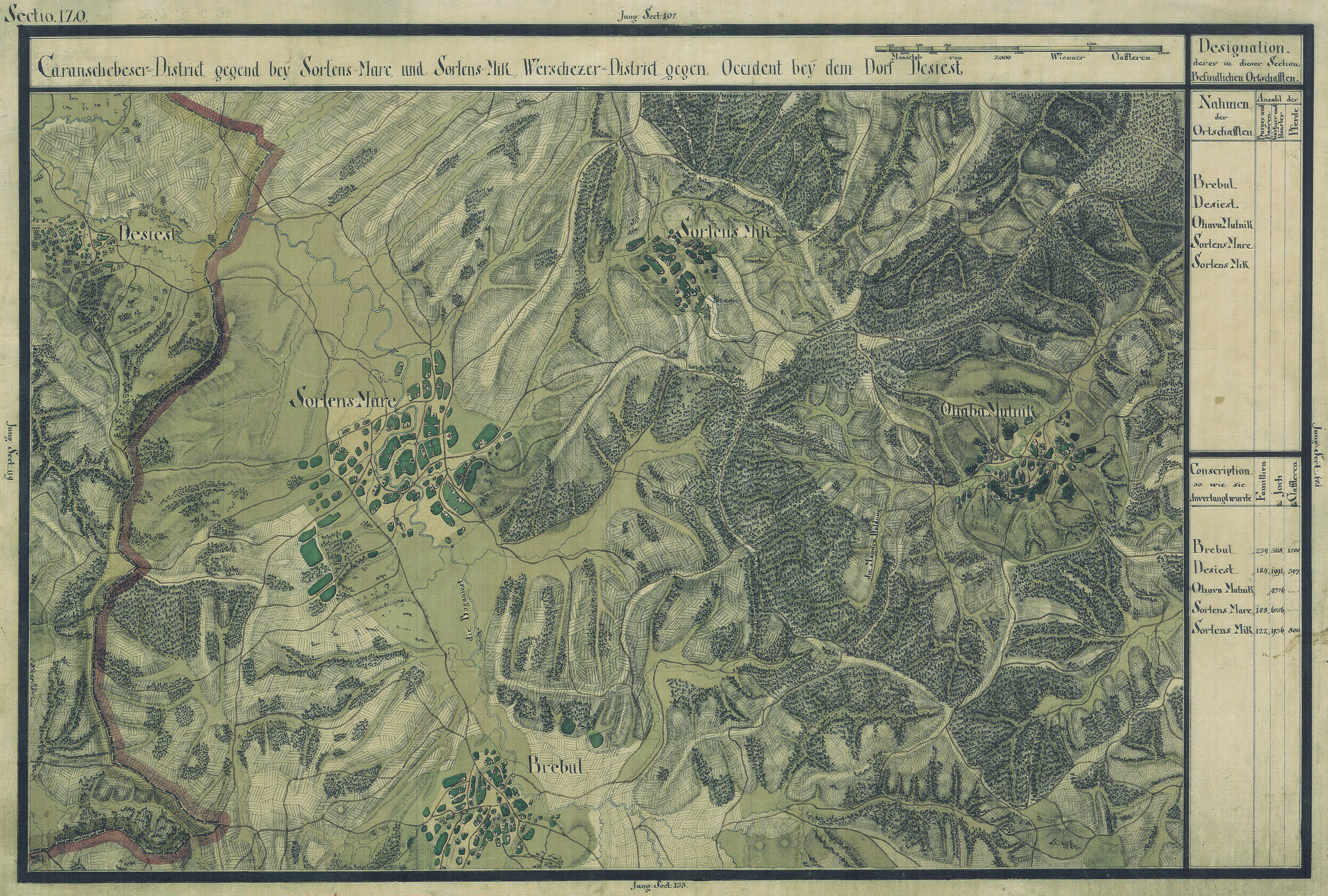 The Banat region in the cadastral maps: Josephinische Landesaufnahme, 1769-72. Josephinische Landaufnahme pg120